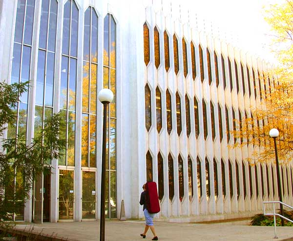 Musician entering the Oberlin Conservatory in Oberlin, Ohio (taken Sept 27, 2004) © 2004 Matthew Trump